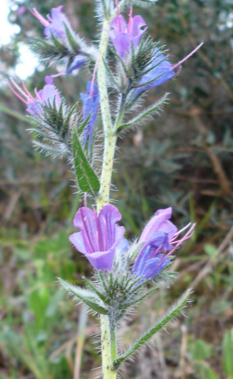 Echium vulgare in la Floresta (Sant Cugat del Vallès, Vallès Occidental, Catalonia)